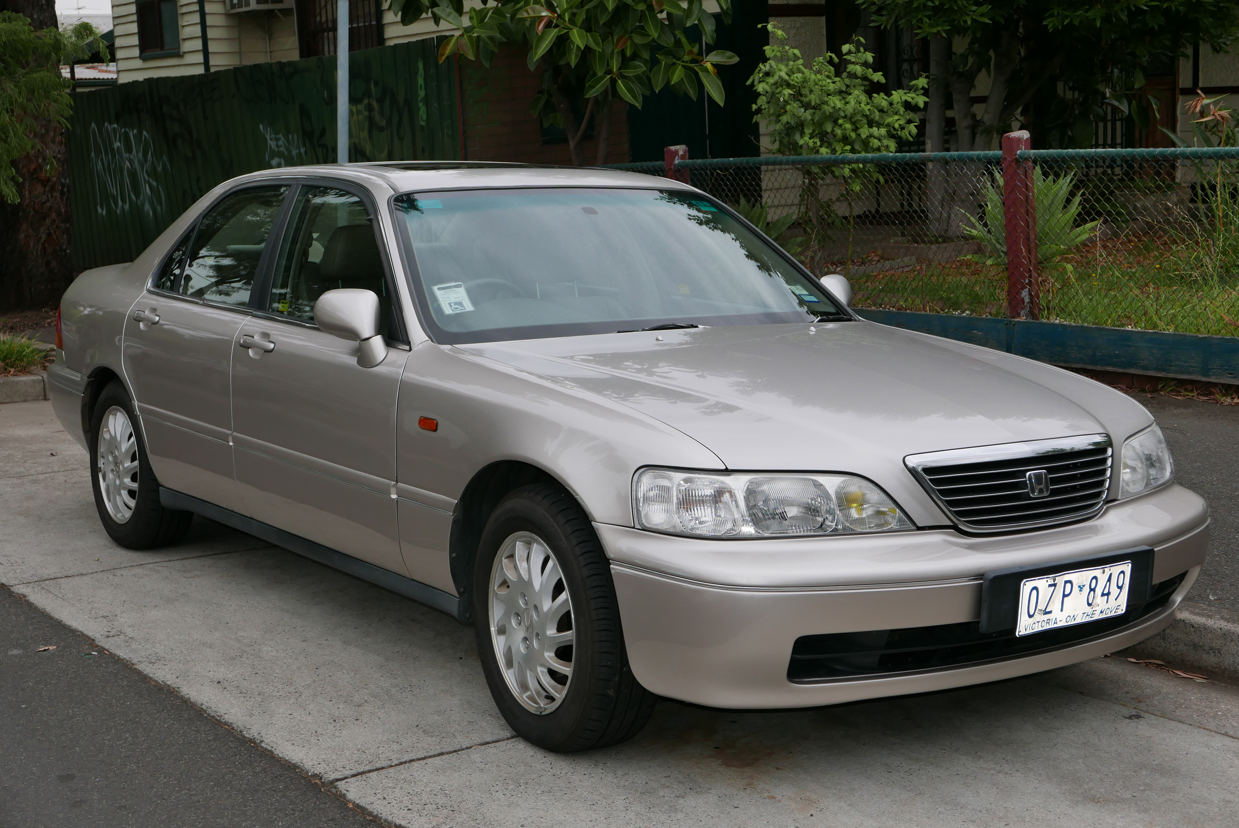 1998 Honda Legend (KA9) sedan. Photographed in Brunswick, Victoria, Australia. Vehicle registration enquiry results Jurisdiction Victoria Registration OZP849 Chassis code JHMKA9620WC202121 Engine code C35A33000137 Compliance date 1998-06 Year of manufacture 1998